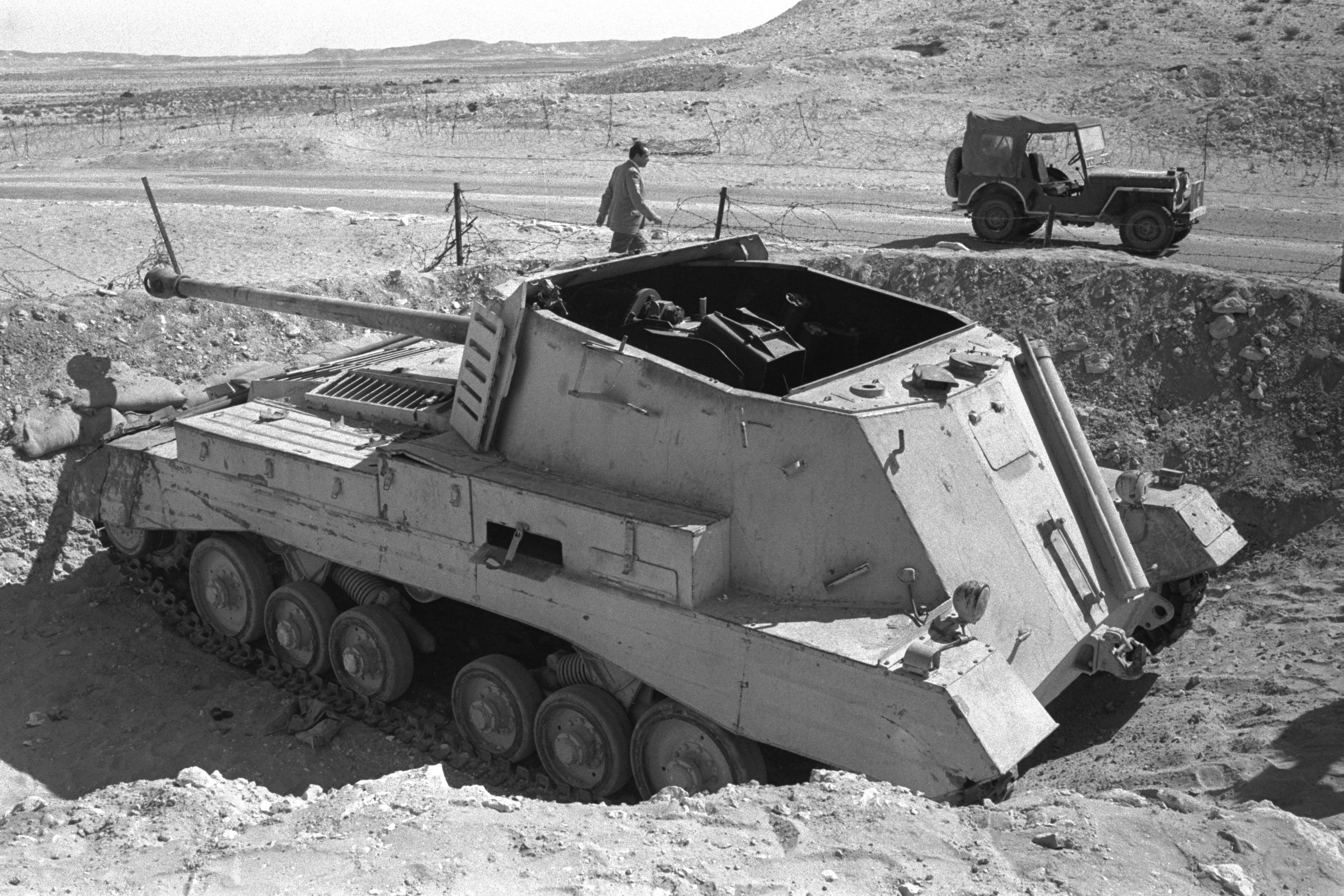 EGYPTIAN TANK DESTROERS KNOCKED OUT BY ISRAEL TANKS AT ABU AGEILA.